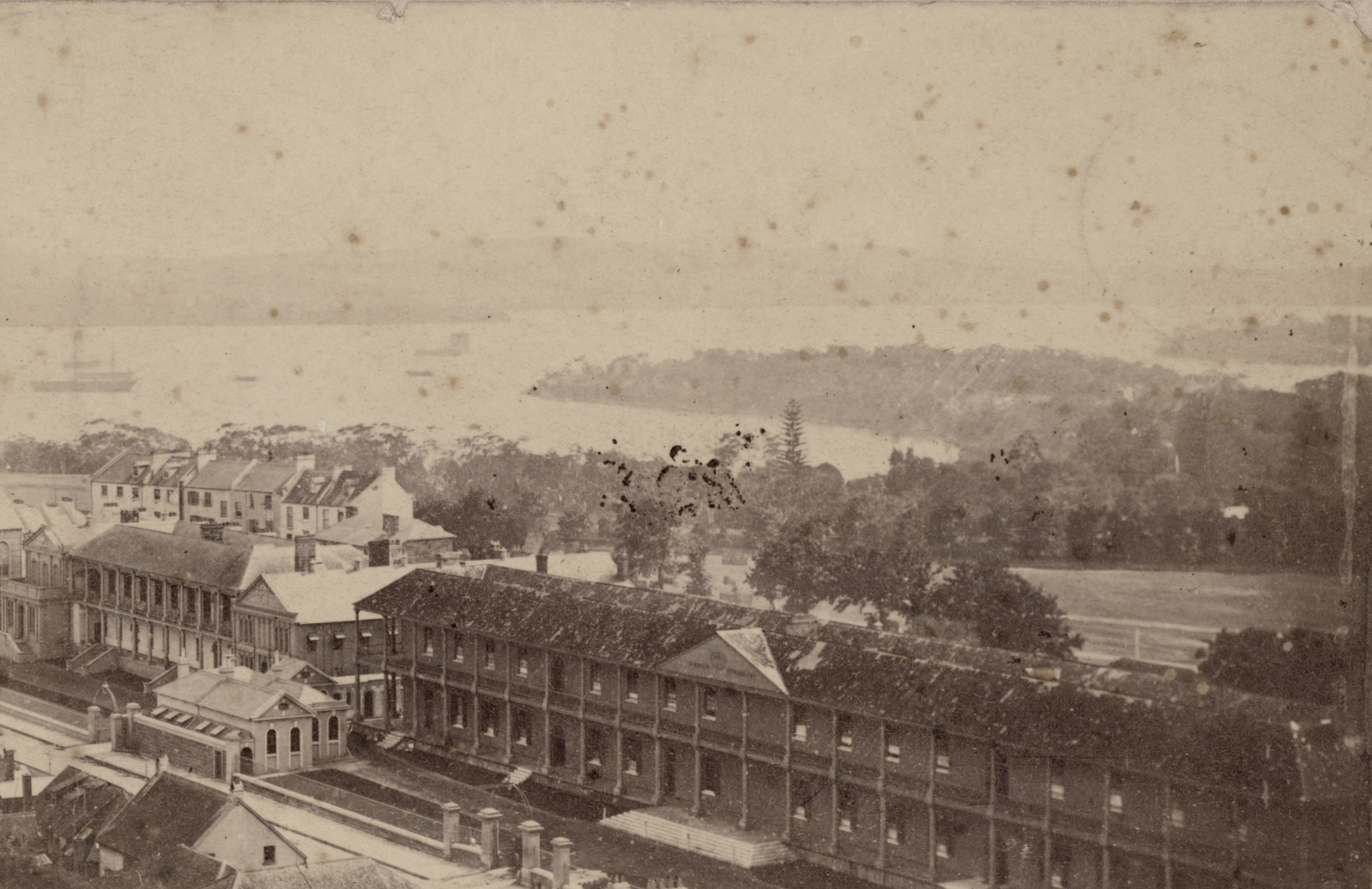 A photo of the Sydney Hospital between 1865 and 1875.